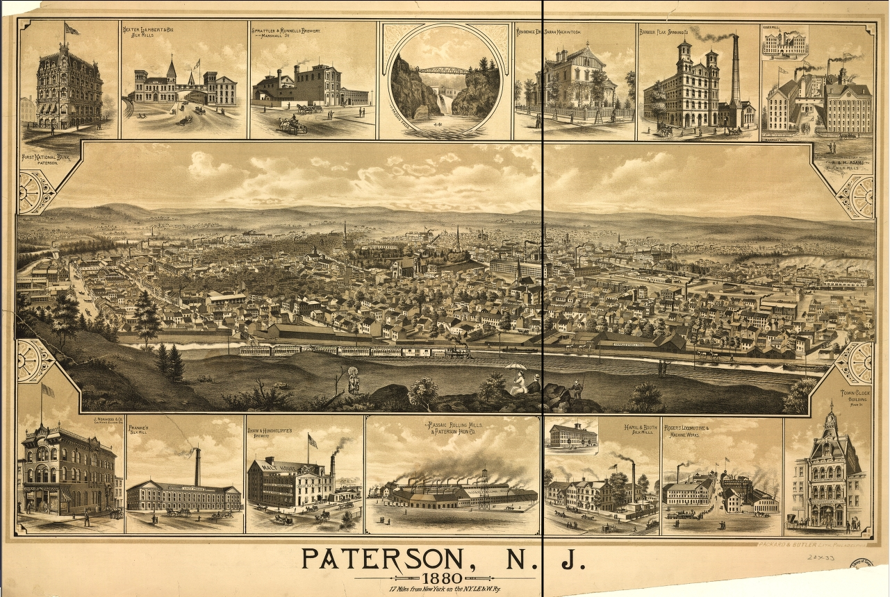 Map of Paterson, NJ